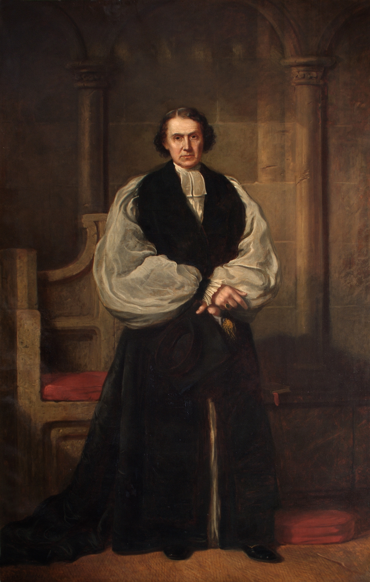 Archibald Campbell Tait (1811-1882), Archbishop of Canterbury